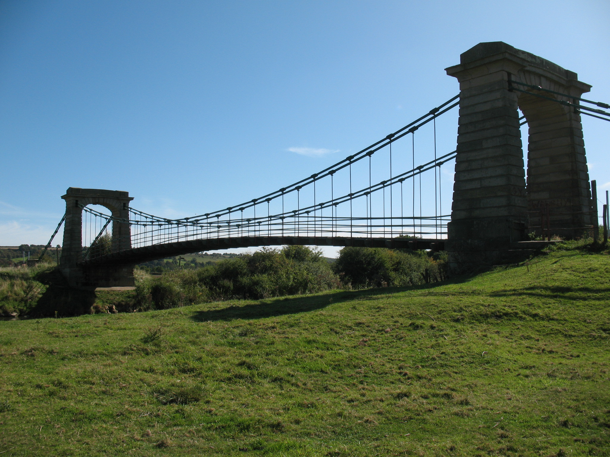 Horkstow Bridge over the River Ancholme in North Lincolnshire, England viewed from the north-west